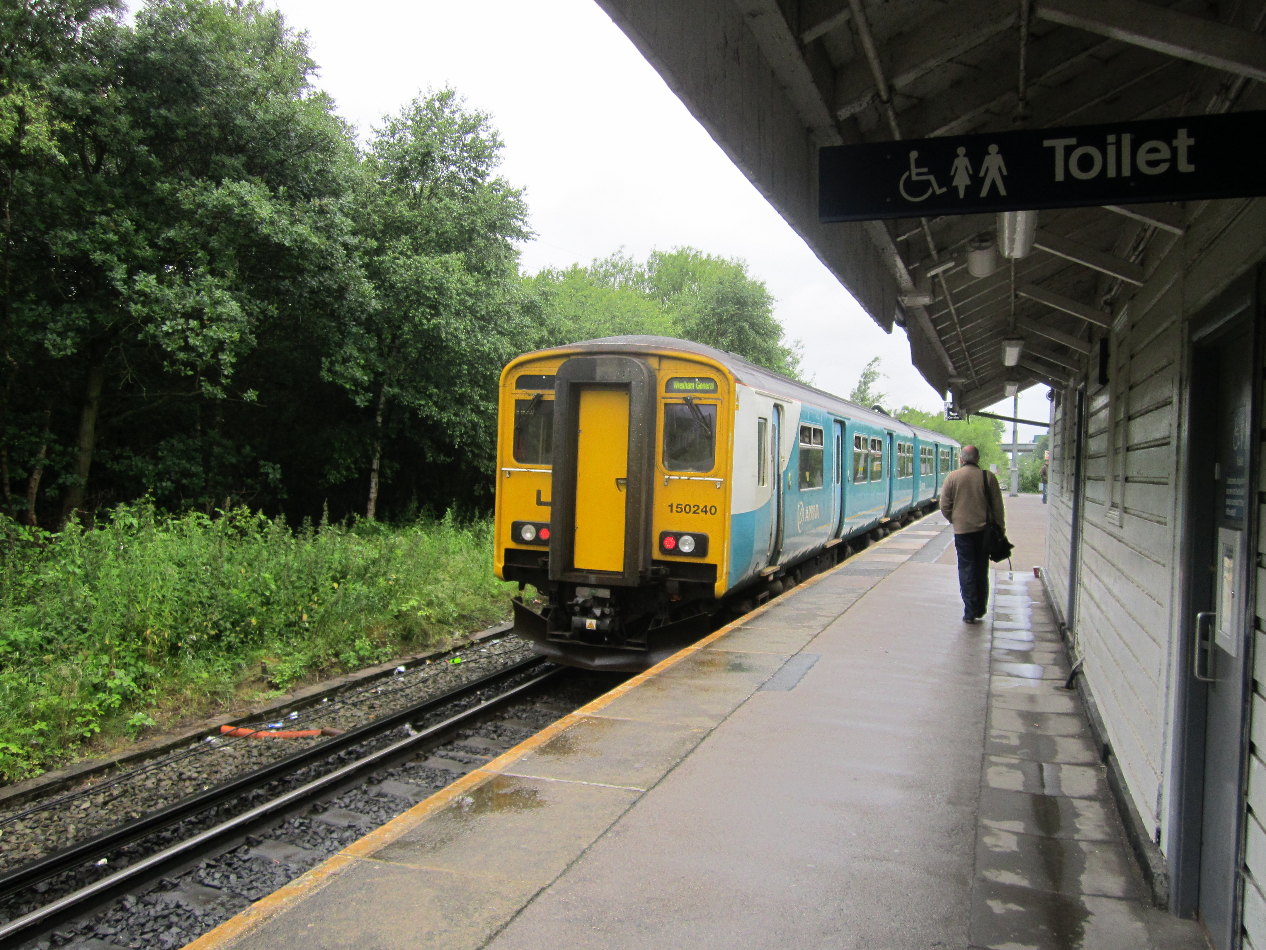 150240 departs Bidston railway station, Birkenhead, Merseyside, England.